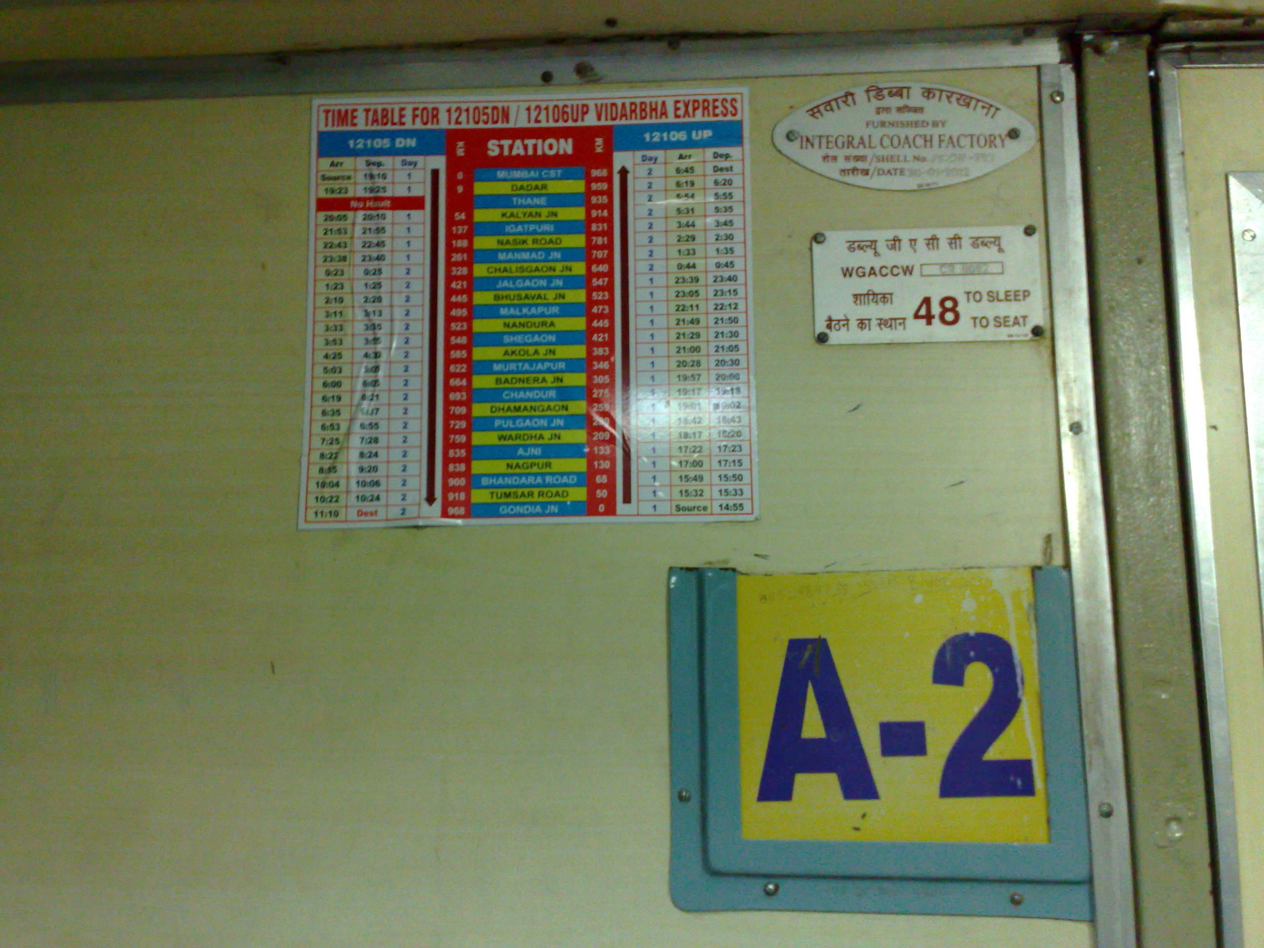 12105 Vidarbha Express time table pasted inside the train